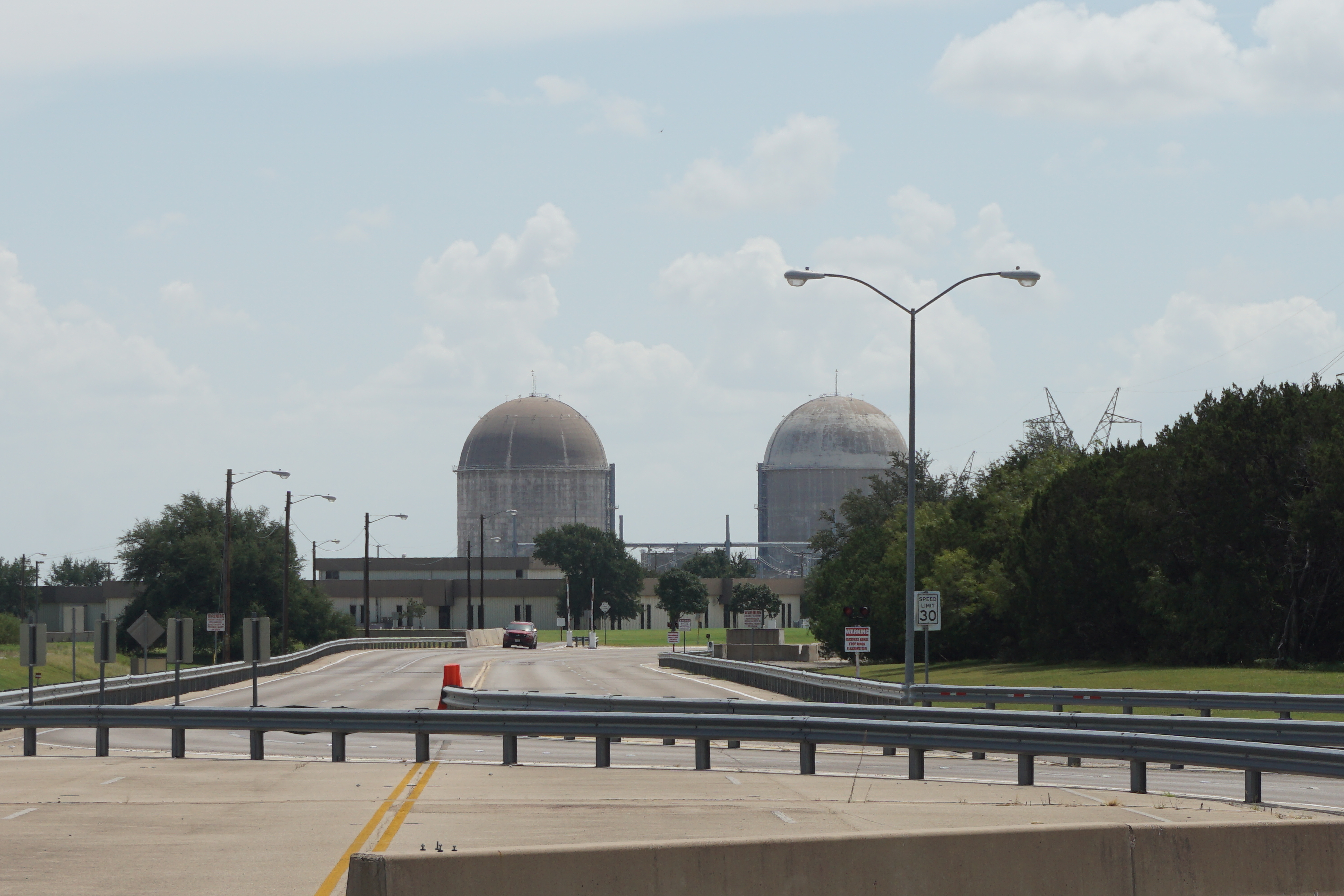 Comanche Peak Nuclear Power Plant in Somervell County, Texas (United States).